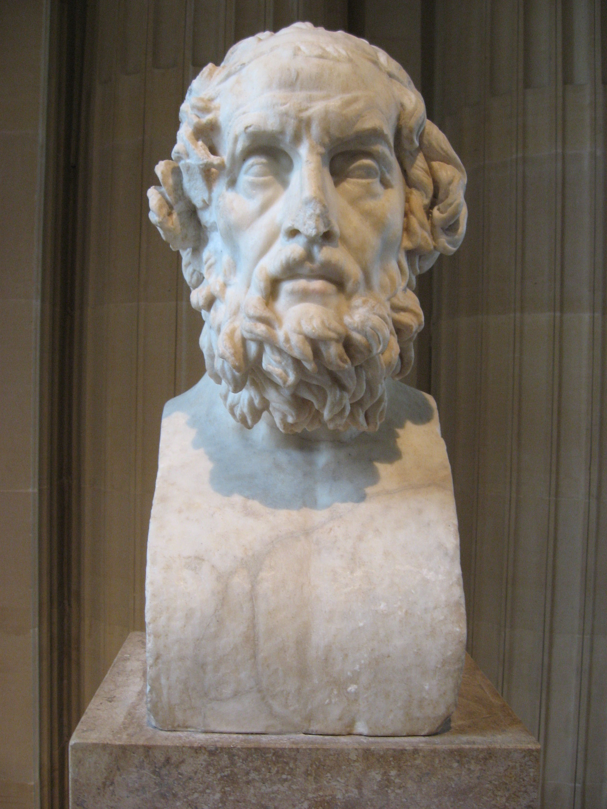 Portrait of Homer, known as Homer Caetani. Pentelic marble, Roman copy of the 2nd century CE after a Greek original of the 2nd century BC. From the Palazzo Caetani in Rome.